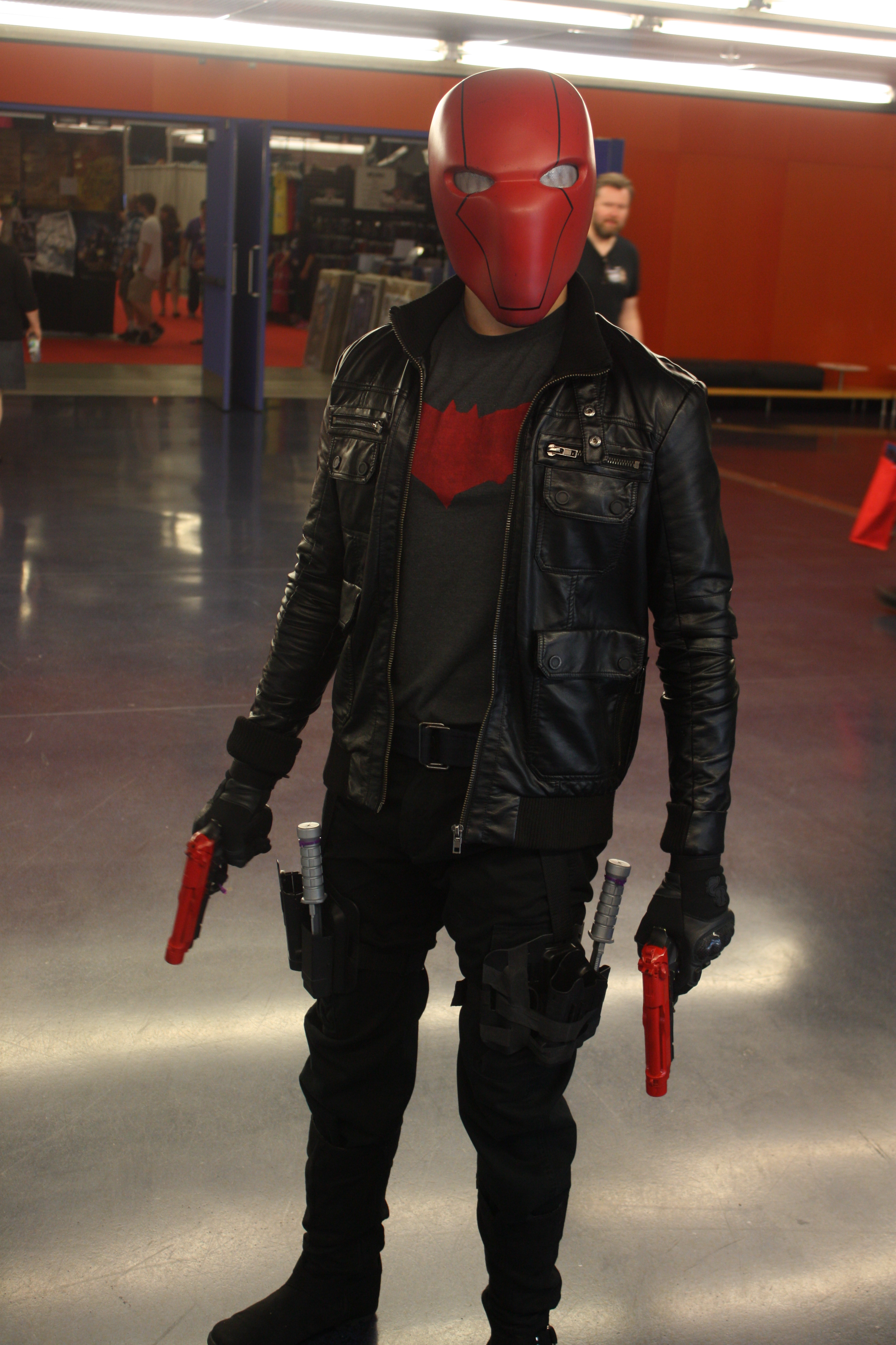 Cosplay on day three of Montreal Comiccon 2015.